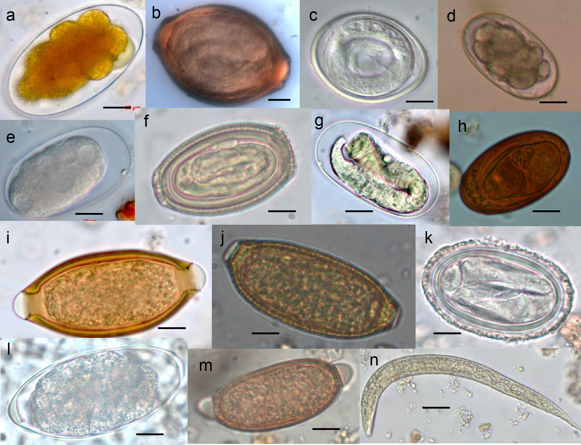 Gastrointestinal parasites in seven primates of the Taï National Park - Helminths Figure 3 of paper. (a) Ternidens sp., (b) Anatrichosoma sp., (c) Subulura sp., (d) Ancylostoma sp., (e) Oesophagostomum sp., (f) Chitwoodspirura sp., (g) Strongyloides sp., (h) Dicrocoelium sp., (i) Trichuris sp., (j) Capillariidae Gen. sp. 1, (k) Protospirura muricola, (l) Trichostrongylus sp., (m) Capillariidae Gen. sp. 2, (n) Strongyloides stercoralis (rhabditoid larva). Scale bars: a–m = 10 μm; n = 25 μm.